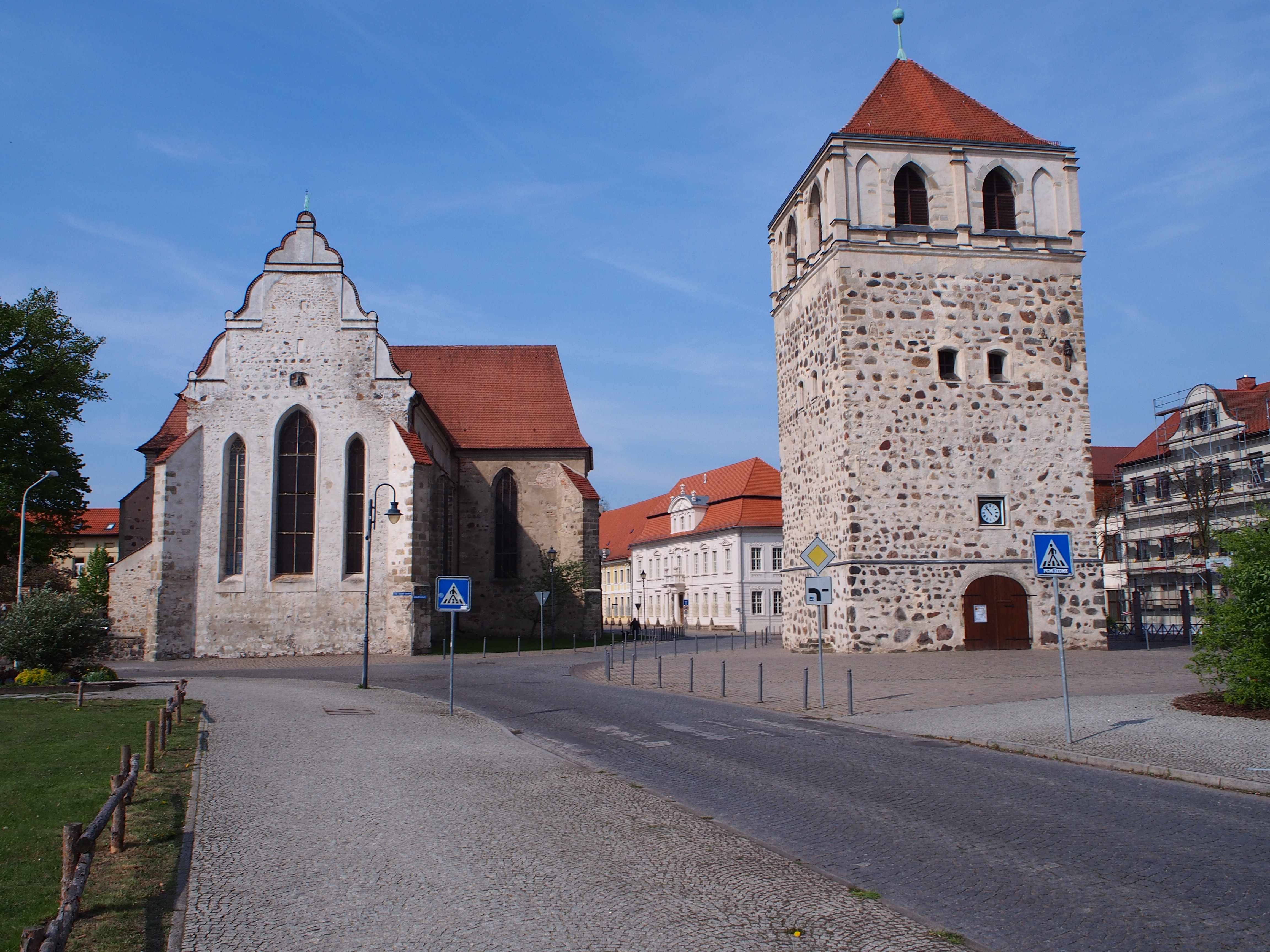 Zerbst, Saxony-Anhalt, Germany: The Church St. Bartholomäi.